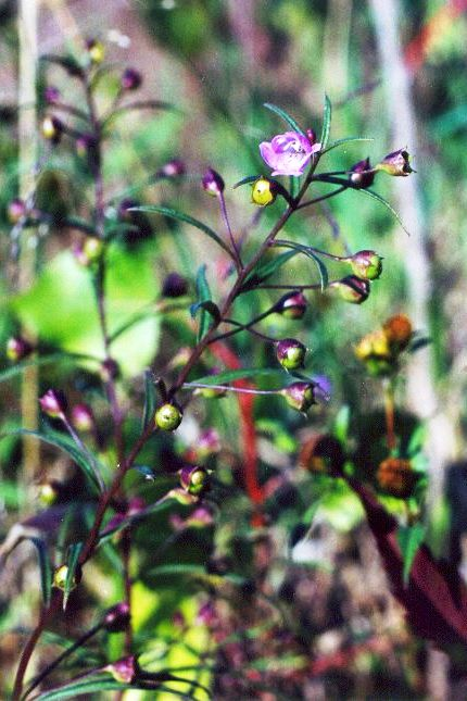 Slenderleaf False Foxglove. In bloom.